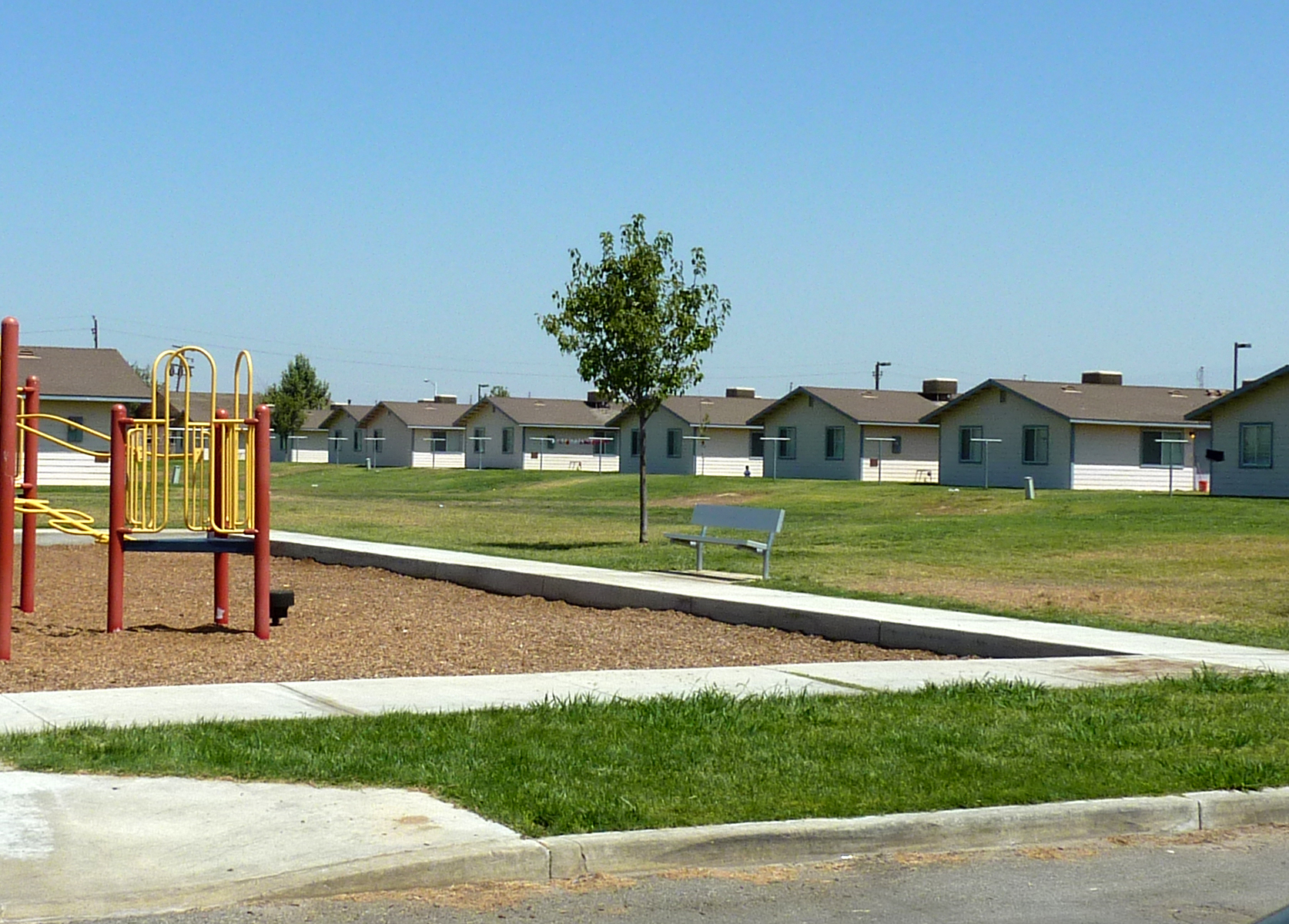 Modern housing within Weedpatch Camp, Bakersfield, California, USA.